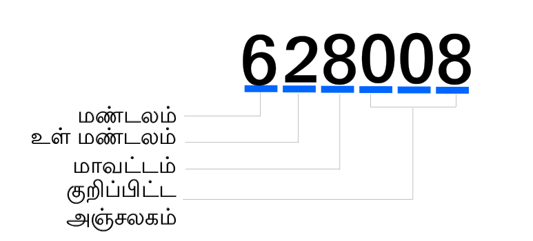 PIN code of India-ta